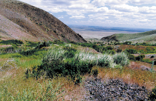 Shrub-Steppe (mostly big sagebrush and bluebunch wheatgrass) in the Rattlesnake Mountains, looking out to Cold Creek Valley, in Hanford Reach National Monument, Washington